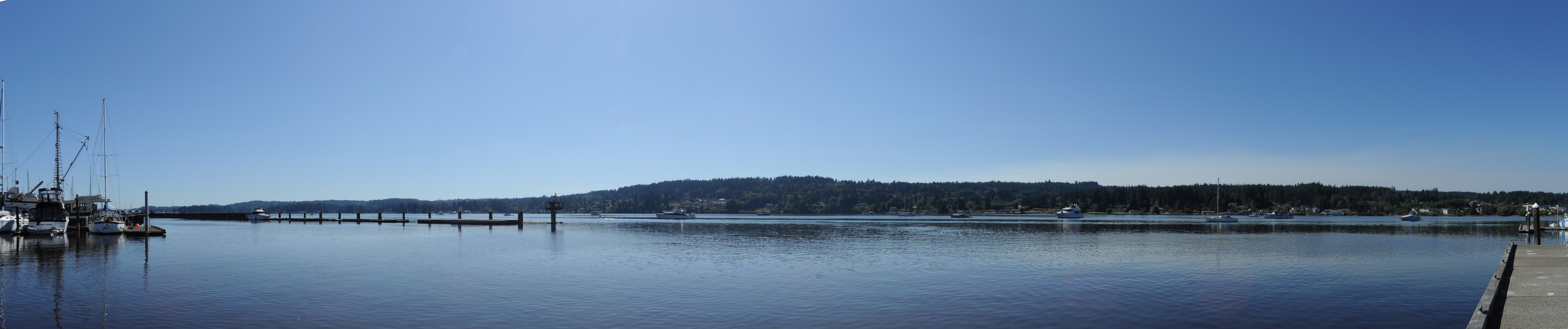 Panoramic view of Liberty Bay from Poulsbo, Washington, USA. This image was created with Hugin